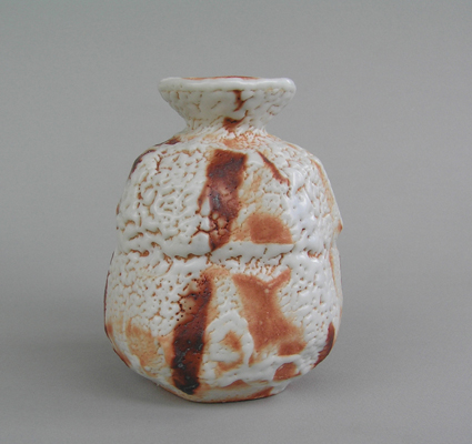 Shino sake bottle - tokkuri